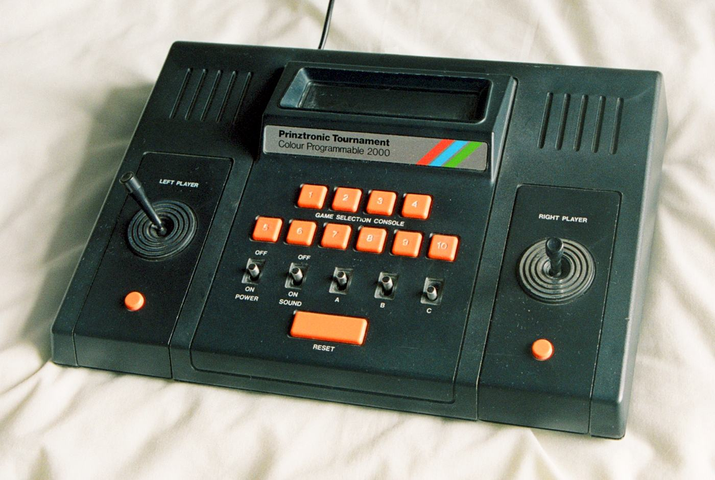 "Prinztronic Tournament Colour Programmable 2000" pong-derivative games console. (This is the unmodified scan of the original negative made commercially at time of processing). Multicherry (uploader) says: "This is a video games console, probably from the late 1970s or thereabouts. It came with a cartridge of 10 Pong-derived games, although apparently others were available (I never had any). Prinztronic and Prinz were (I believe), an own-brand of the Dixons electronics chain in the UK during the 1970s. (Dixons' UK stores themselves have now been rebranded as "Currys Digital"). " Arosio Stefano adds : "As stated here[1] and here[2] Multicherry's cart was based around the AY-3-8610 chip and the console doesn't have a central CPU because every cartridge contains a General Instruments (GI) chip AY-3-86xx or AY-3-87xx (Pong on a chip). These chips contain most of the game system circuits. So we can say that the console belongs to the first era of consoles."